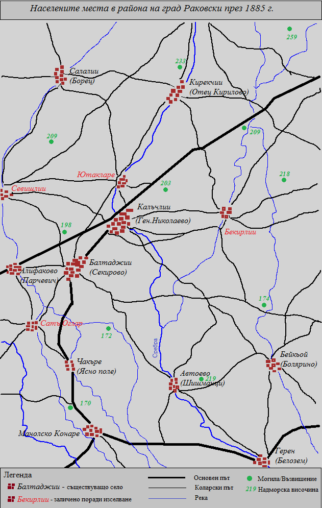 Settlements in the region of Rakovski township in 1885